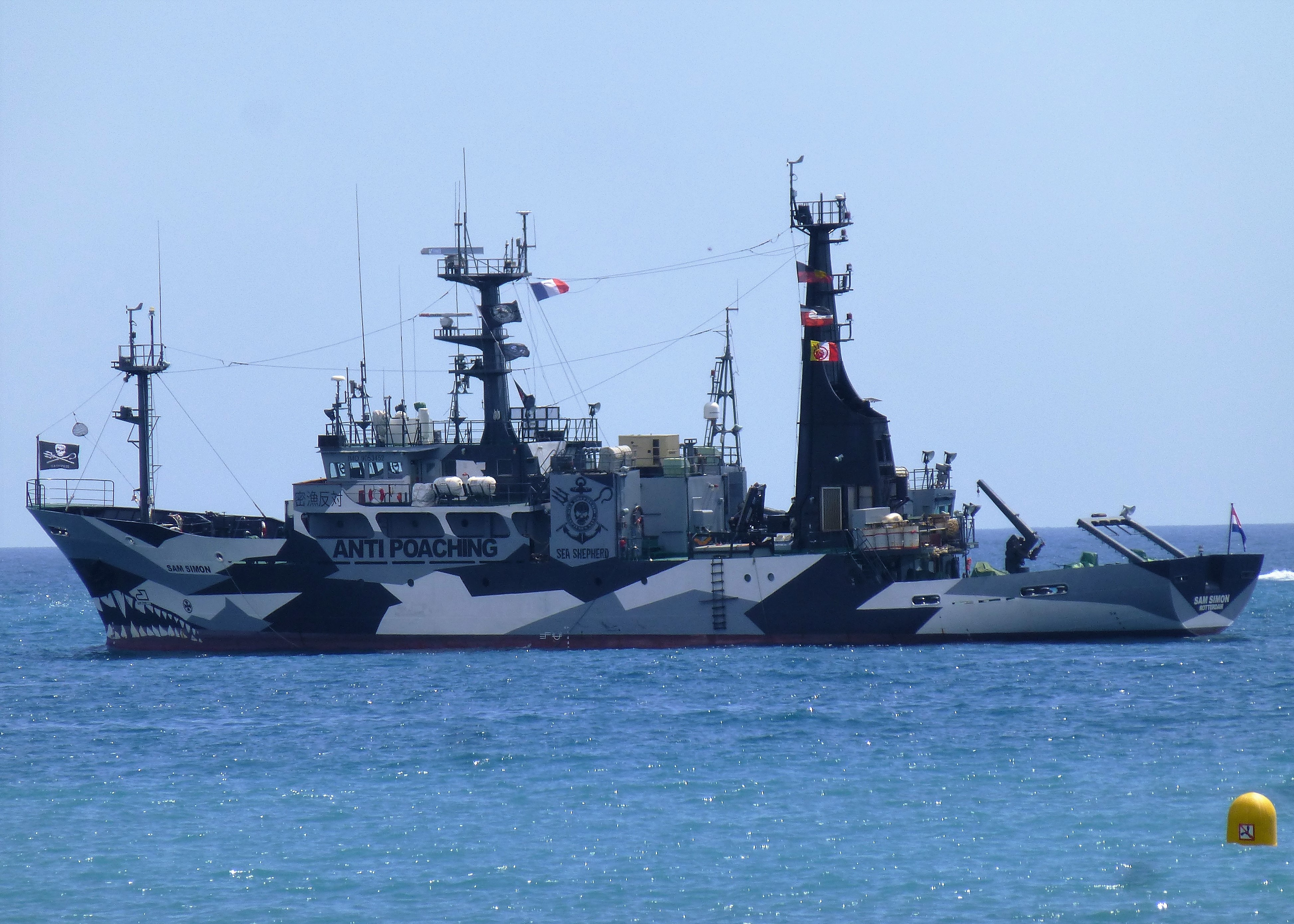 The is an anti poaching boat named the Sam Simon co creator of The Simpsons who also funded their organziation, 2016 Cannes Film Festival